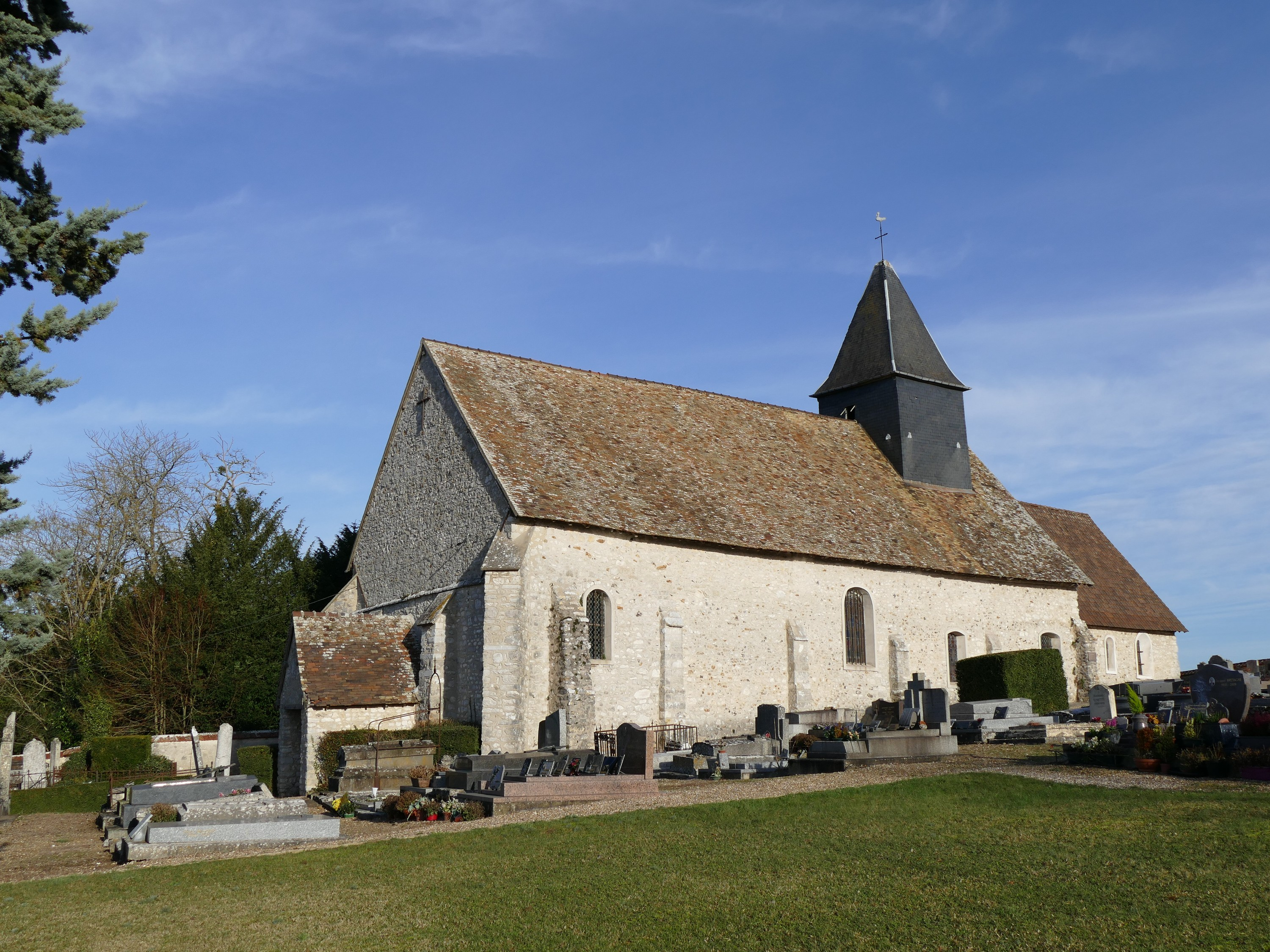 Saint-Peter's church in Oulins (Eure-et-Loir, Centre, France).